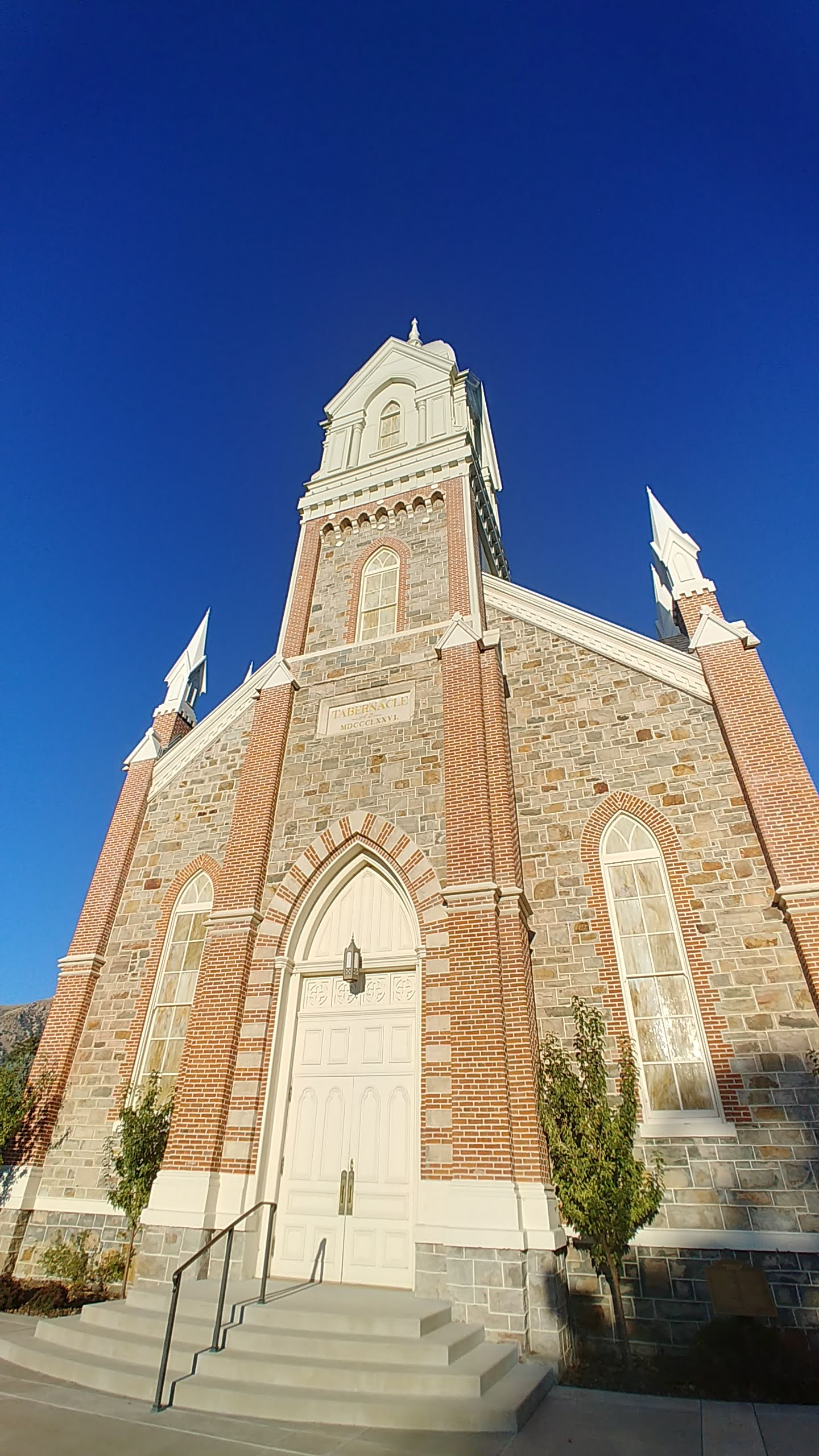 Brigham City Tabernacle